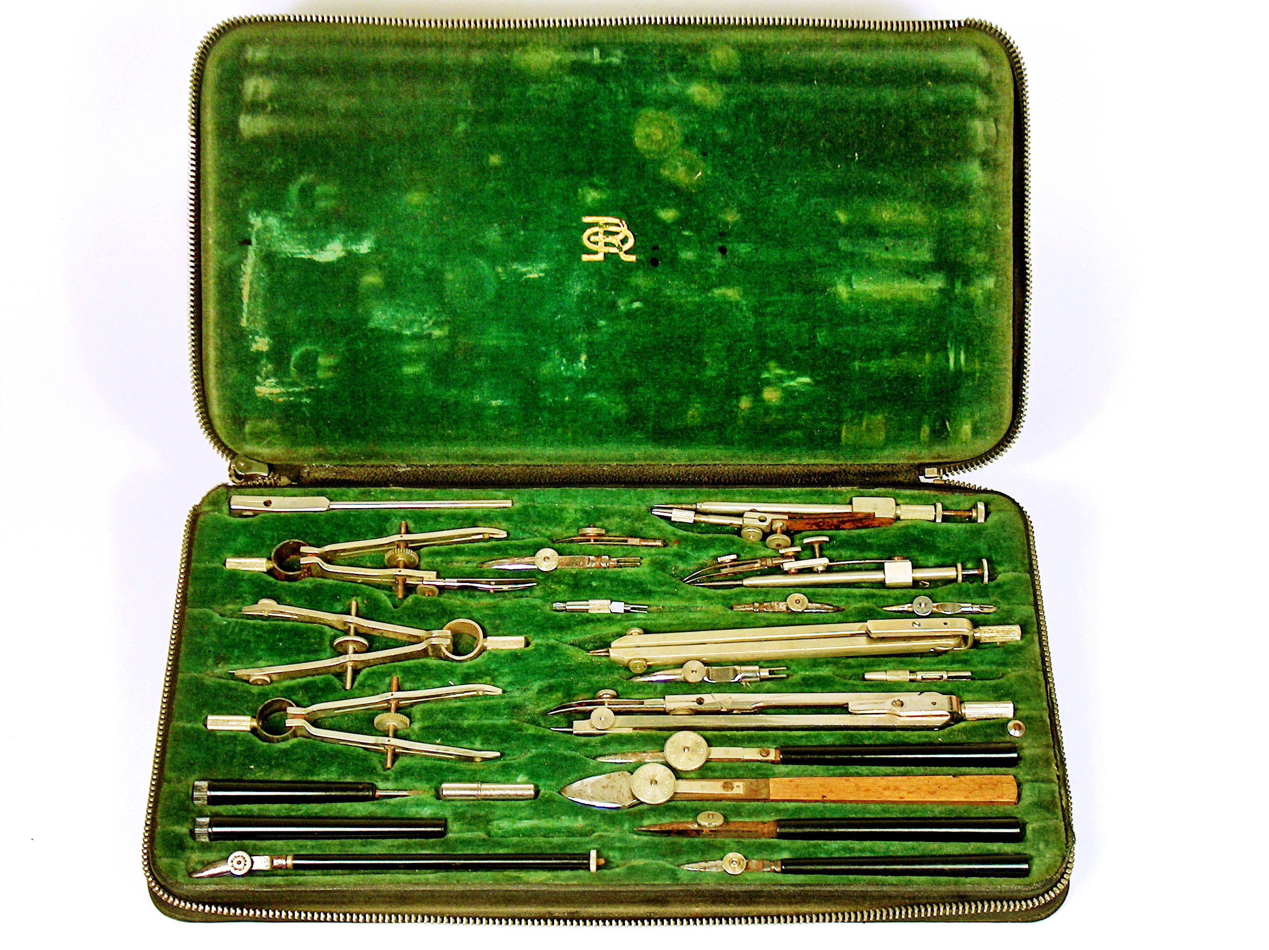 Compasses kit. It is part of the collection in Museum of Science and Technology Belgrade and the exhibition of Medicine in Serbia through centuries.